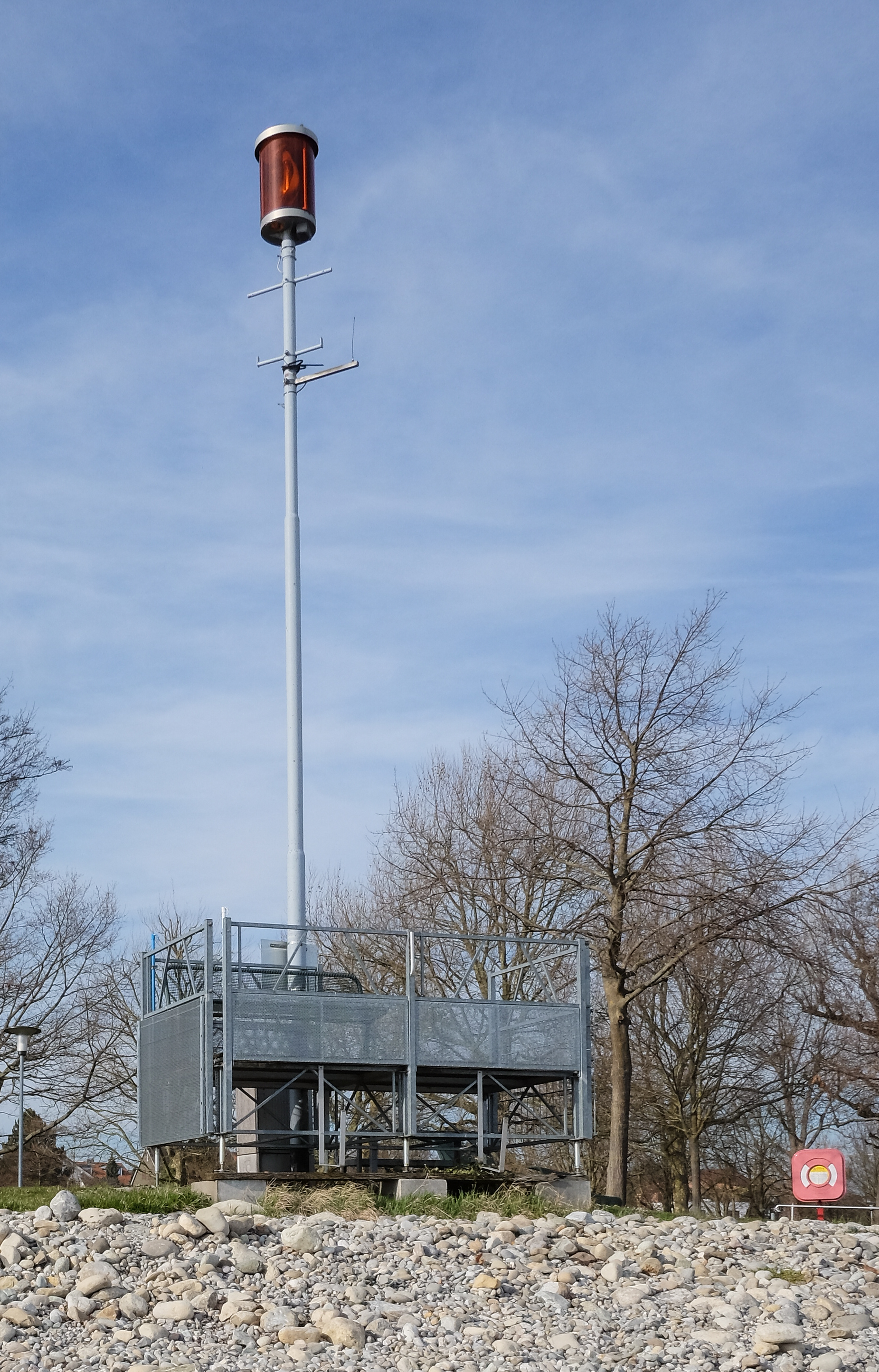 Beacon for gale warning, Lake Constance, Immenstaad, district Bodenseekreis, Baden-Württemberg, Germany